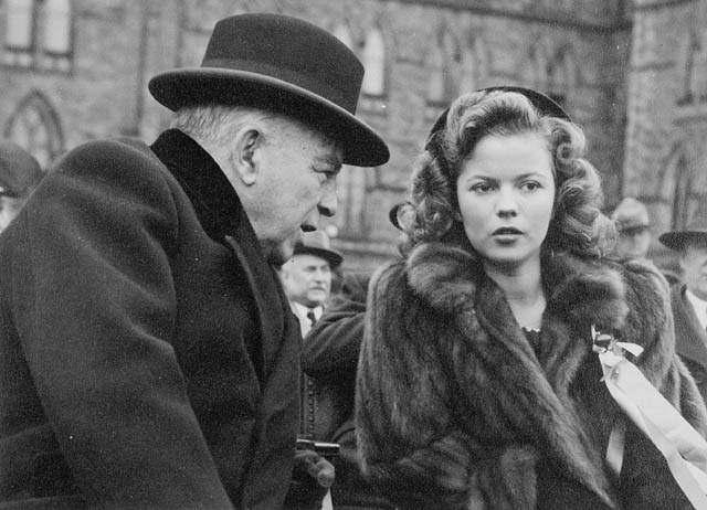 The Right Honourable William Lyon Mackenzie King, then Prime Minister of Canada, and movie star Shirley Temple